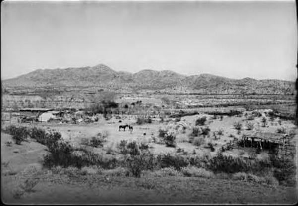 Tohono o´odham rancheria